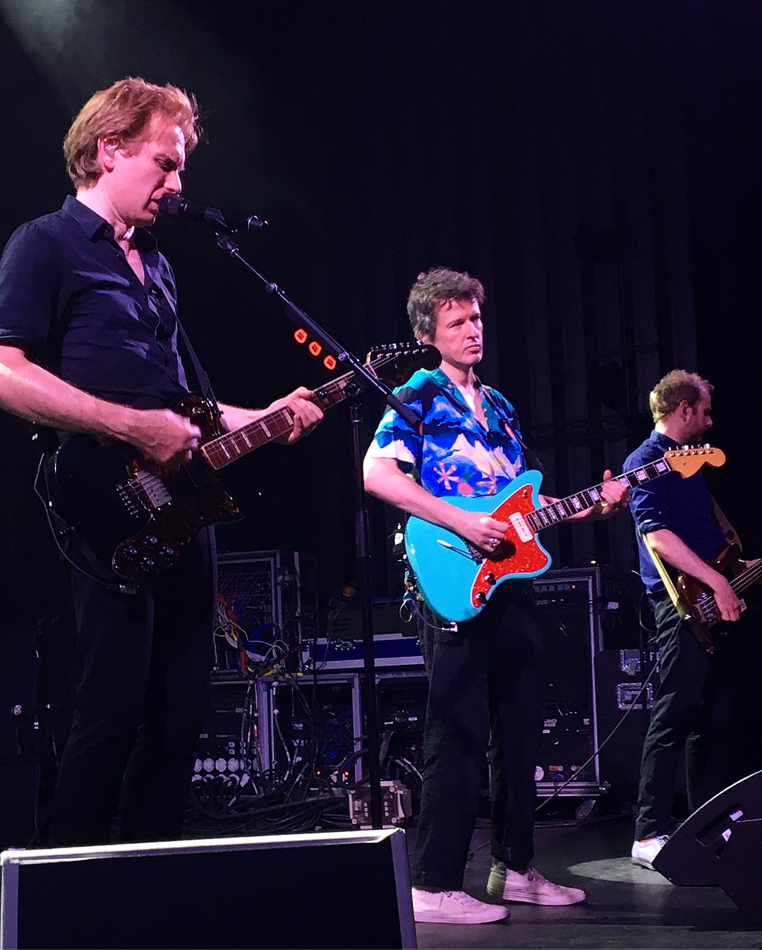 (Left to right) Alex Kapranos, Dino Bardot, and Bob Hardy of the indie rock band Franz Ferdinand perform at College Street Music Hall.